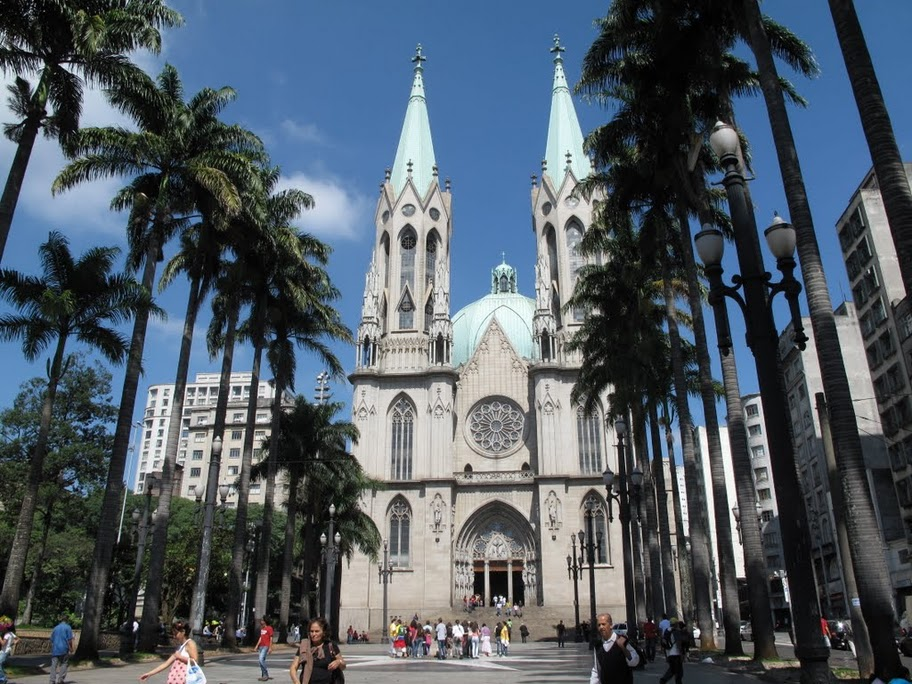 Catedral da Sé de São Paulo.